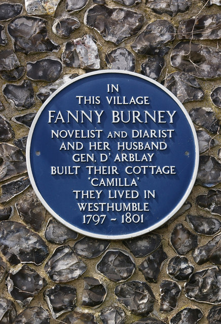 Plaque on the gateway to Camilla Drive. See 788732 for gateway.